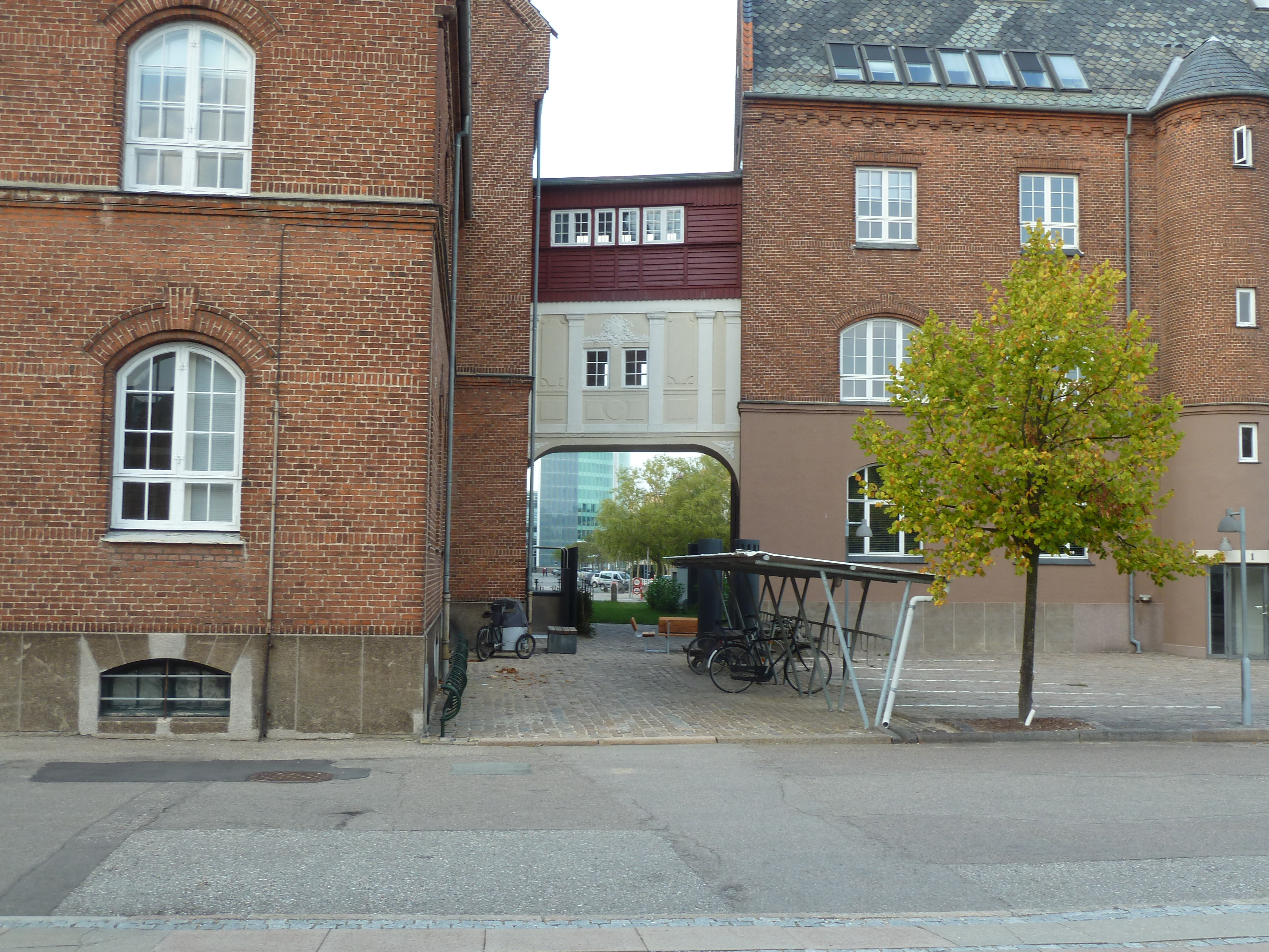 The two-storey skybridge connecting 10 and 12 Indiakaj in Copenhagen, Denmark